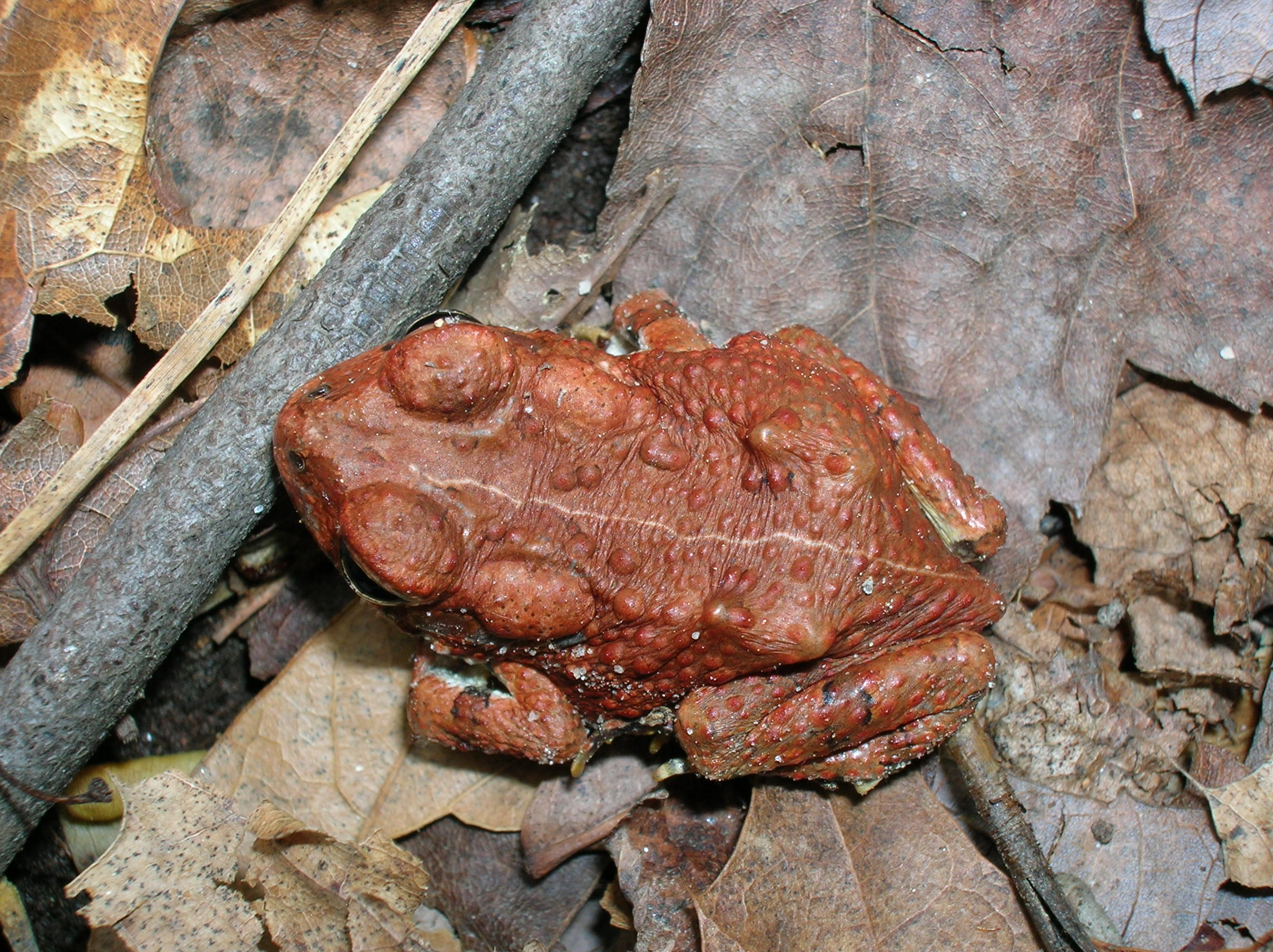 A particularly red version of Bufo americanus